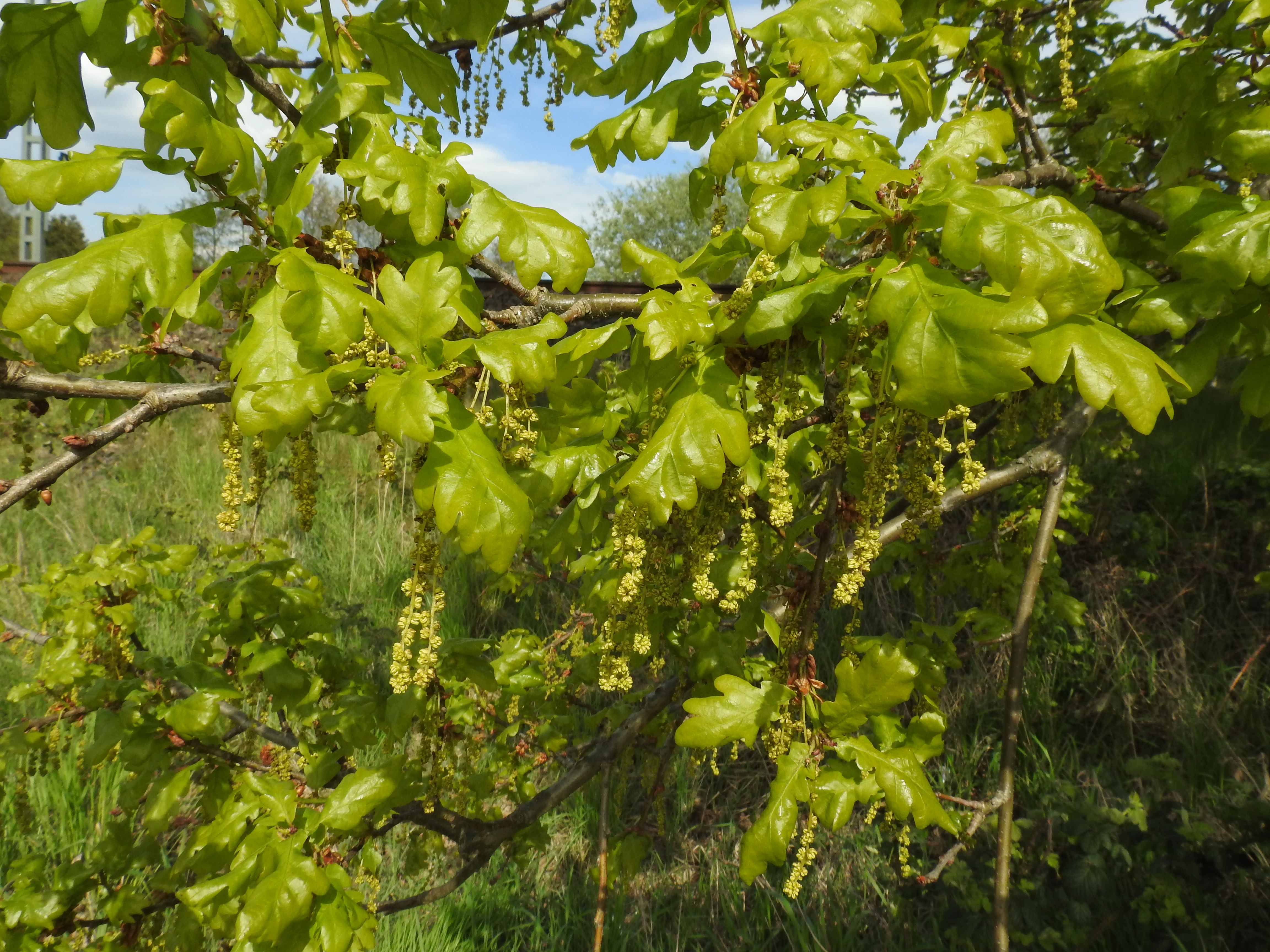 Pedunculate oak (Quercus robur) with flowers, at the bicycle path between Offenthal and Götzenhain, Germany